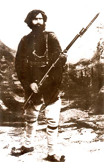 portrait of Alexander Turandjov